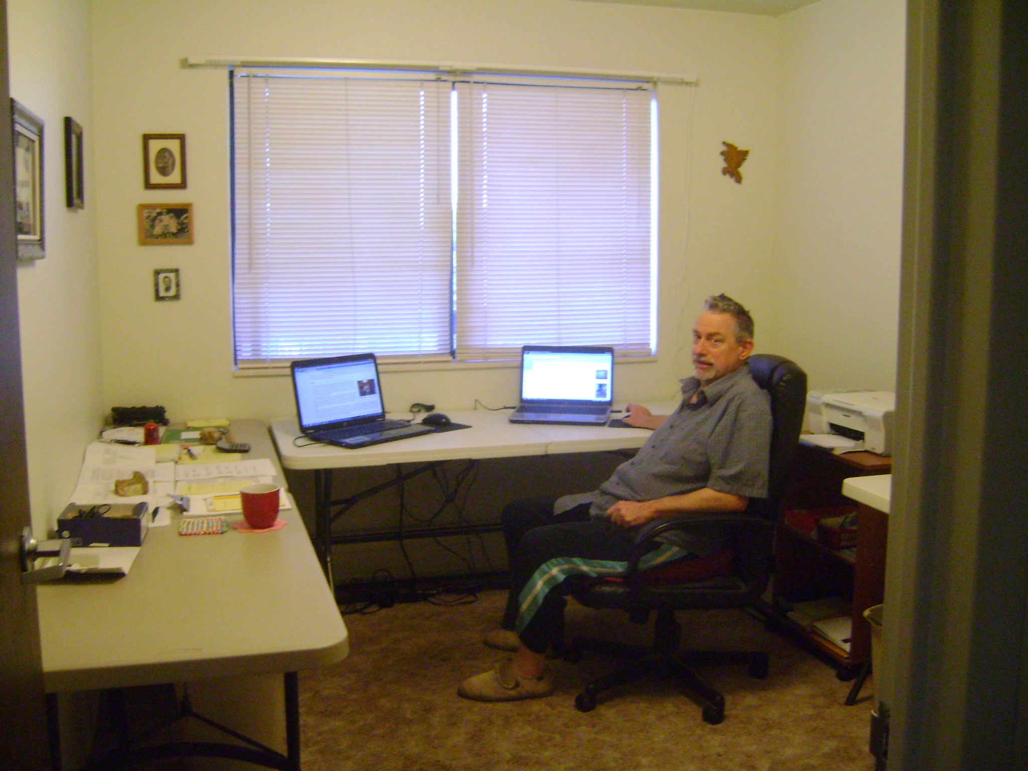 Wikipedia man cave with retiree writing articles